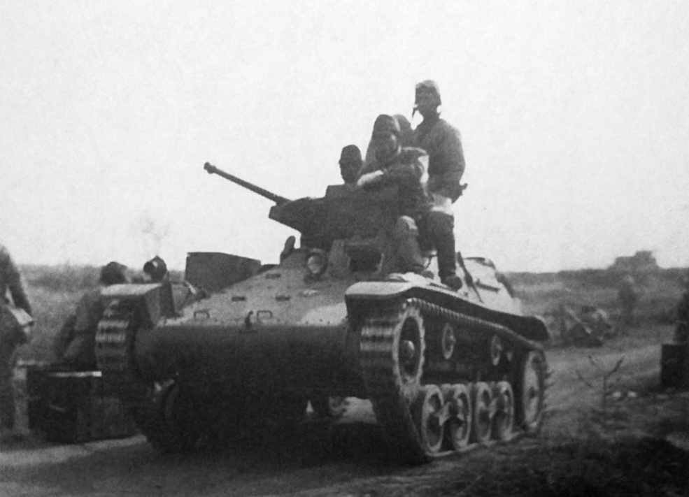 Imperial Japanese Army Type 97 light armored car Te-Ke at china.